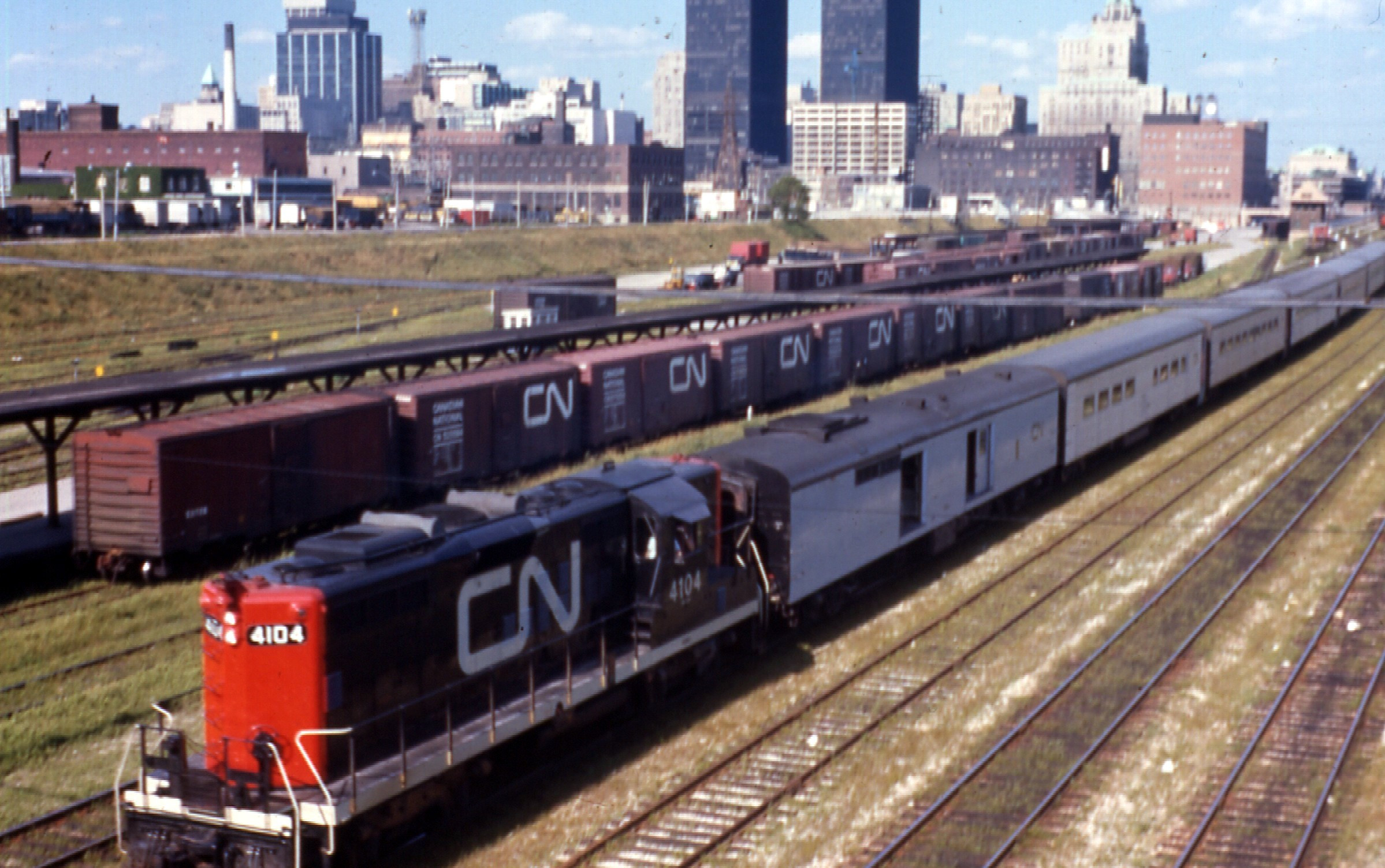 Railway lands in Toronto, Ontario, Canada. In the 1960's, CN purchased new locomotives and passenger cars for the Toronto-London-Windsor-Sarnia service. Unfortunately, this equipment did not survive the conversion to VIA Rail Canada. CN Tempo service to Windsor.